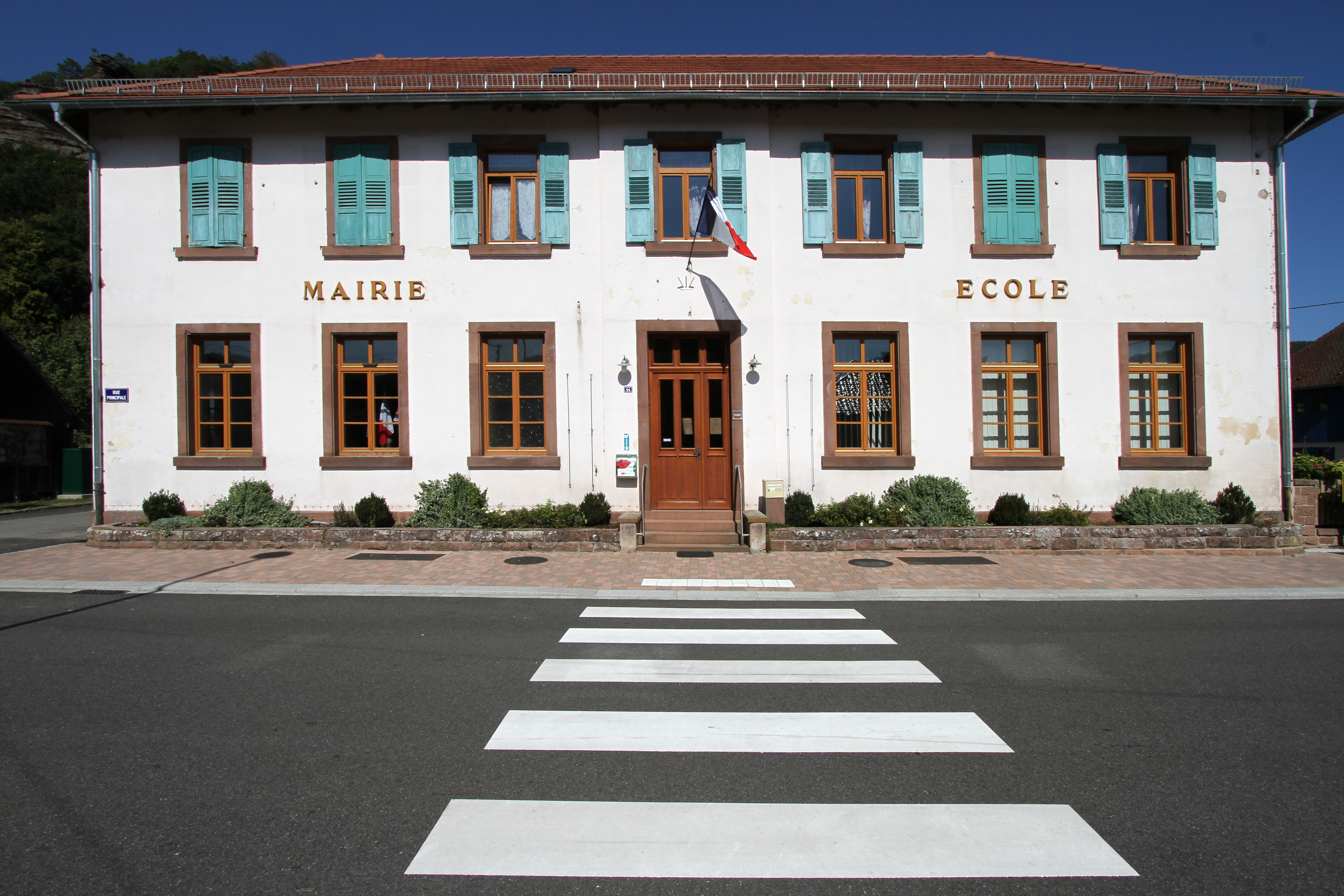 Town hall and school of Obersteinbach.